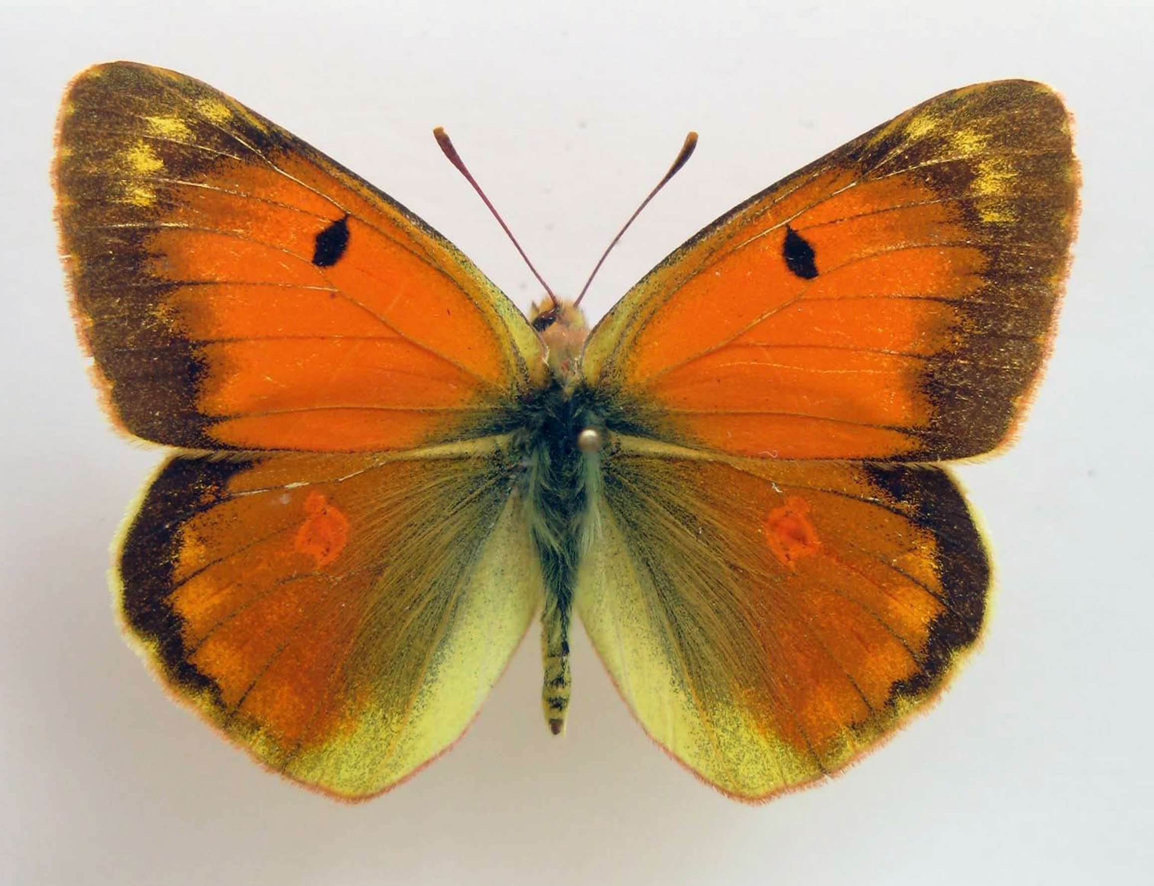 Colias romanovi